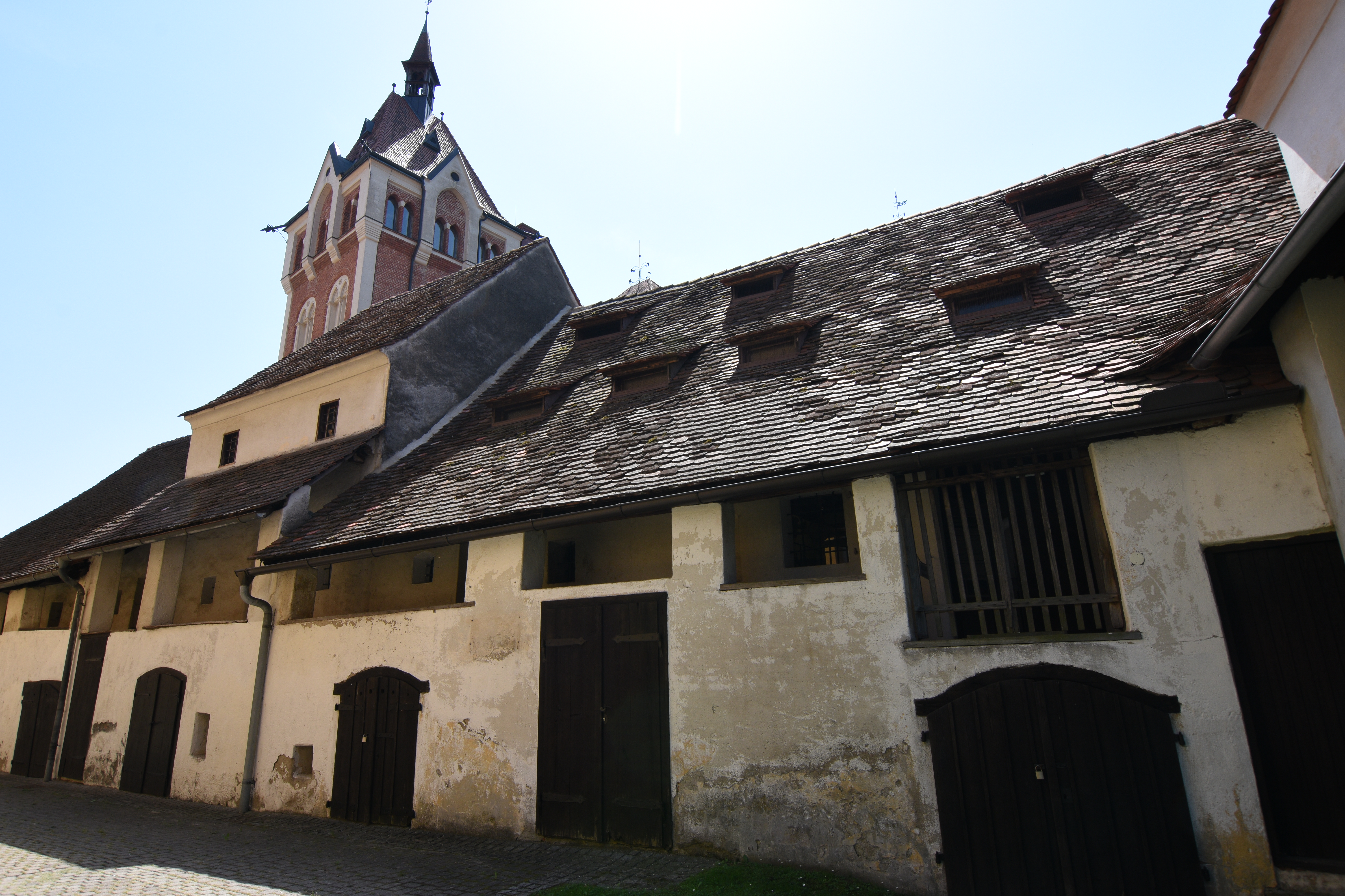 Tabor Feldbach